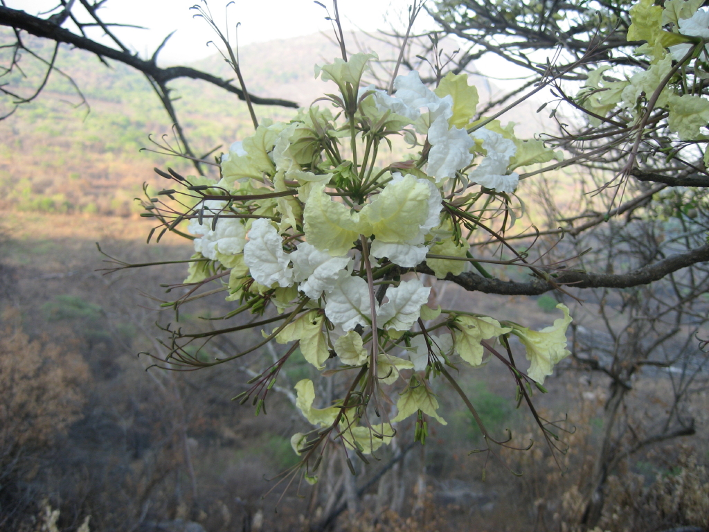 Cladostemon kirkii flowers, Macossa District of Mozambique